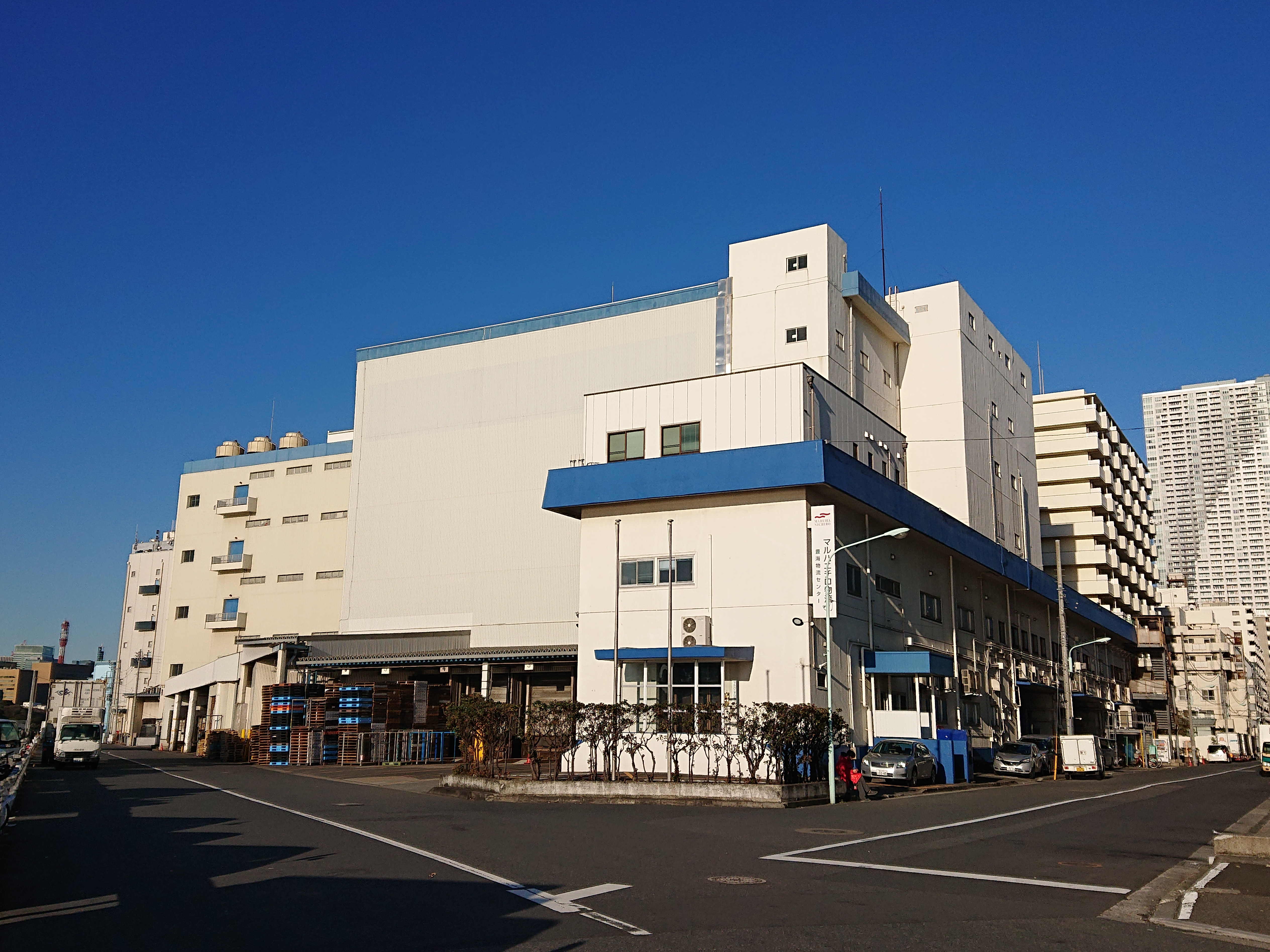 Maruha Nichiro Logistics (マルハニチロ物流) headquarters, located at 14-17 Toyomicho, Chuo, Tokyo, Japan